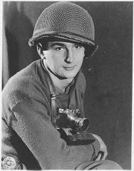 Portrait of U.S. Army Signal Corps photographer J Malan Heslop. — courtesy of J Malan Heslop, United States Holocaust Memorial Museum